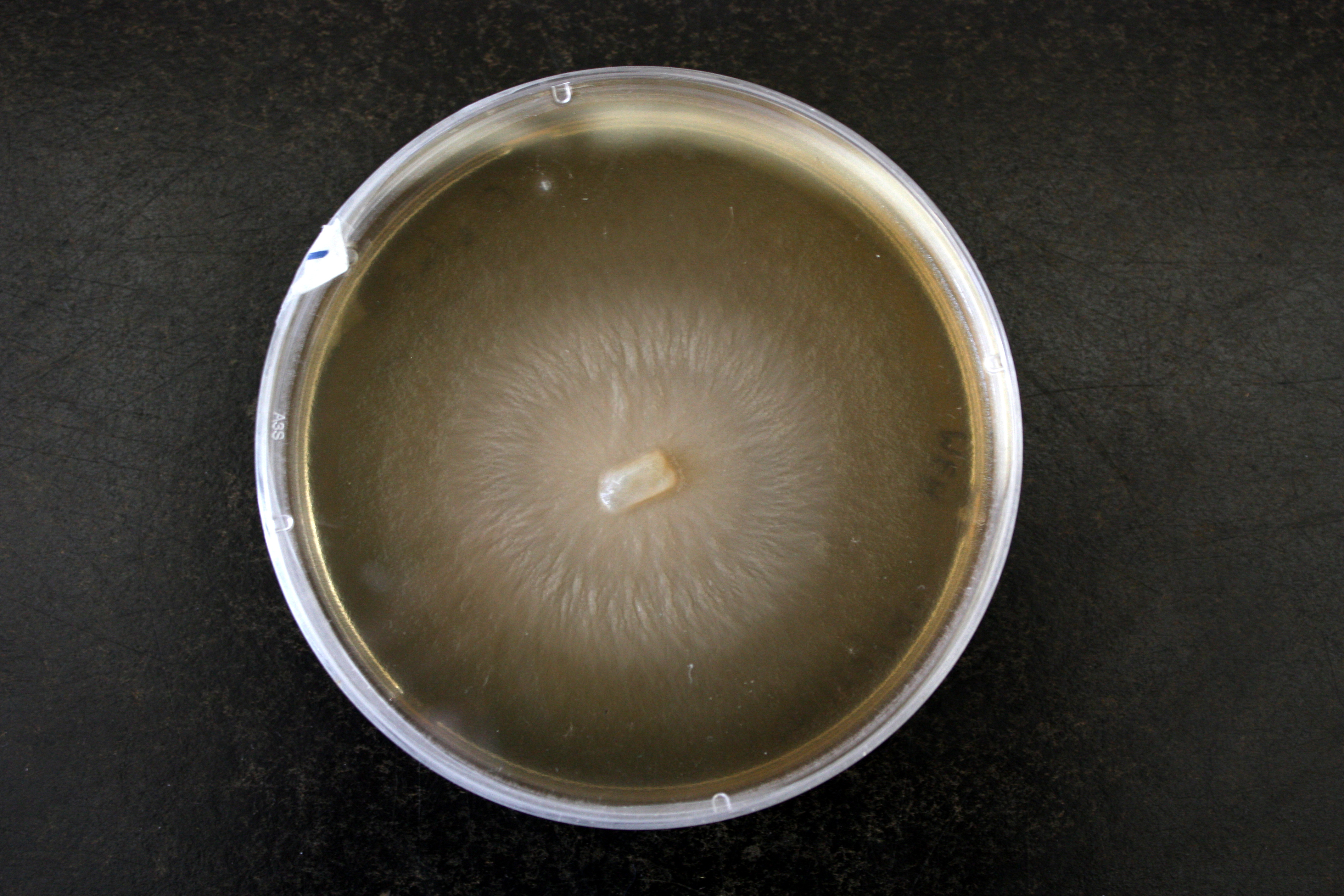 Ophiostoma ulmi growing on MEA.